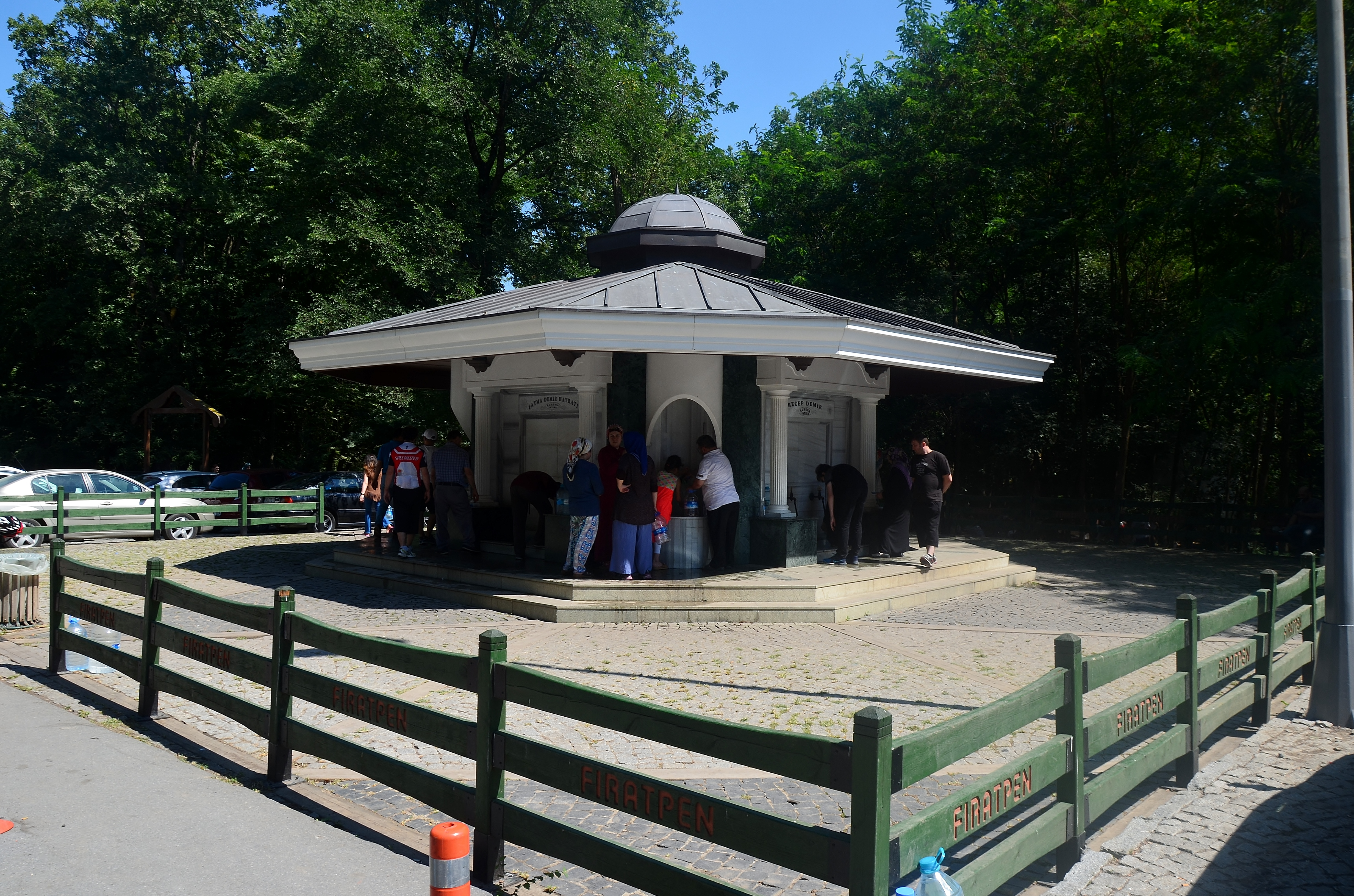 Fountain in the Neşetsuyu Nature Park inside the Belgrad Forest in Sarıyer, Istanbul, Turkey